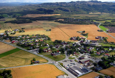 Opphaug of Ørland municipality, Norway. Seen from westnorthwest